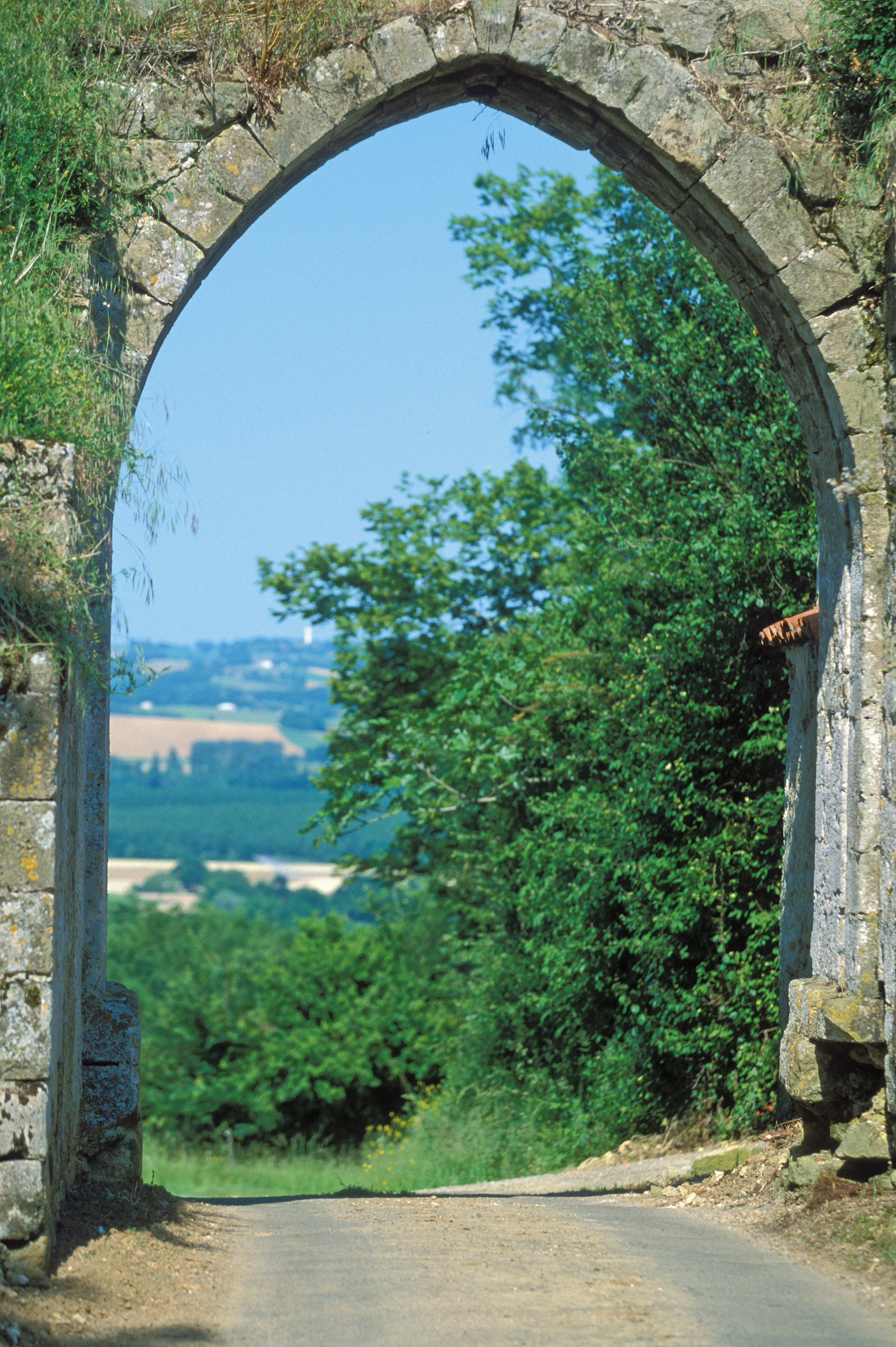 La porte médiévale